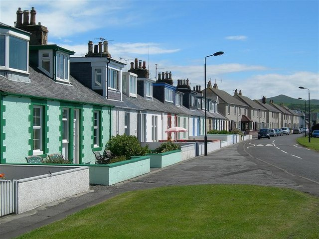 Foreland, near to Ballantrae, South Ayrshire, Great Britain. Attractive and well-maintained houses on the sea front at Ballantrae.